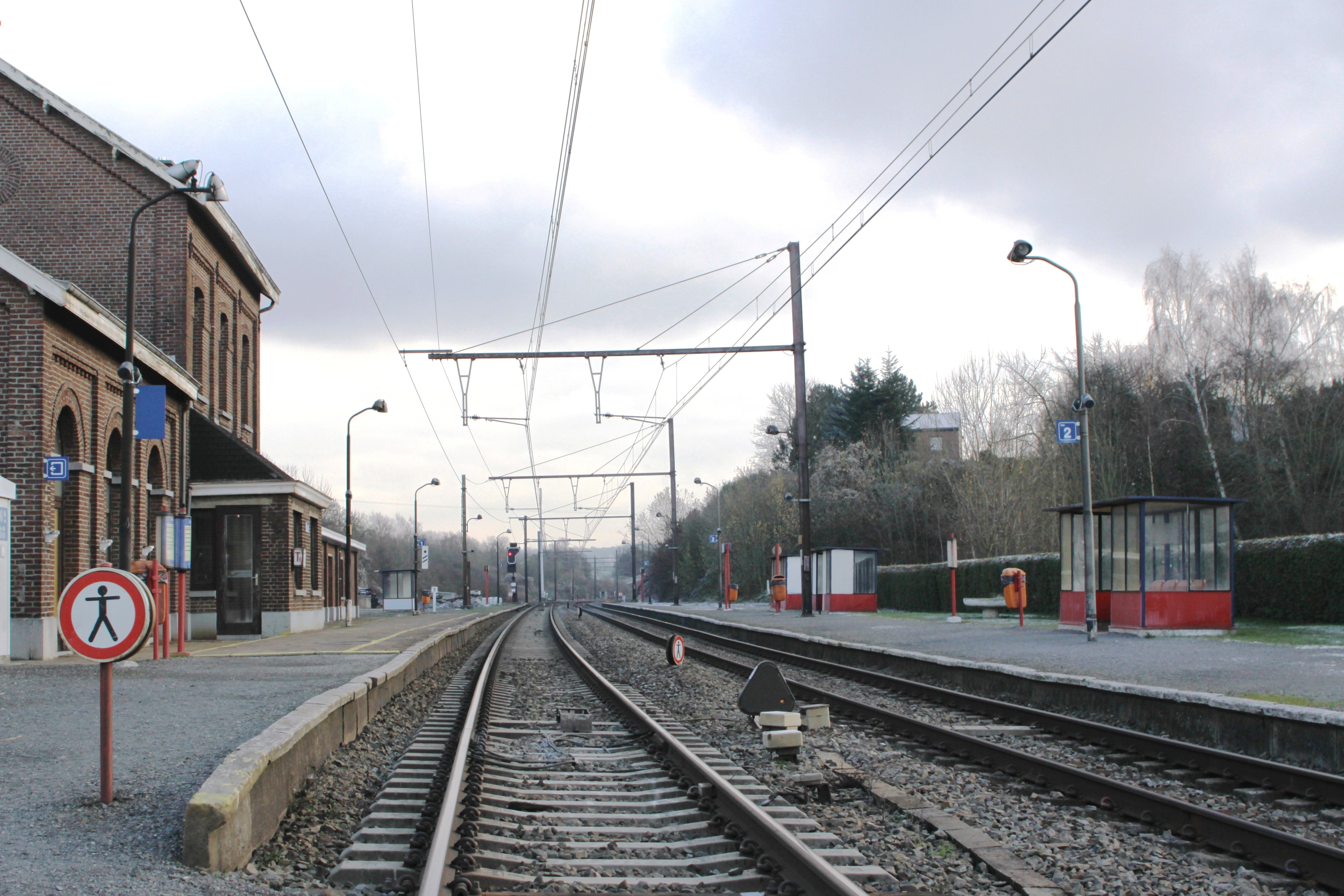 Train station Naninne 2008